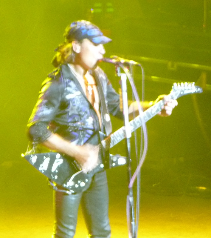 Matthias (Scorpions) using the talkbox playing "The Zoo" in Carcassone (France) the 28th July 2009.